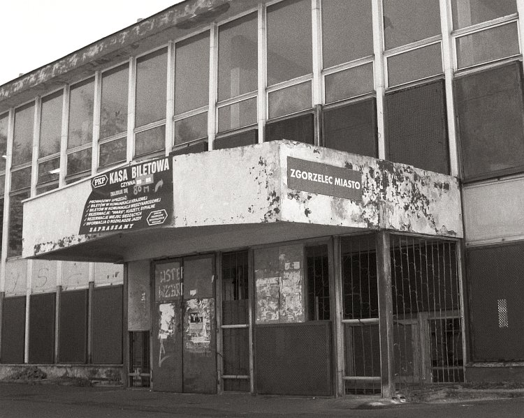 Disused for several years building the main railway station in Zgorzelec (Polish Lusatia), Poland.